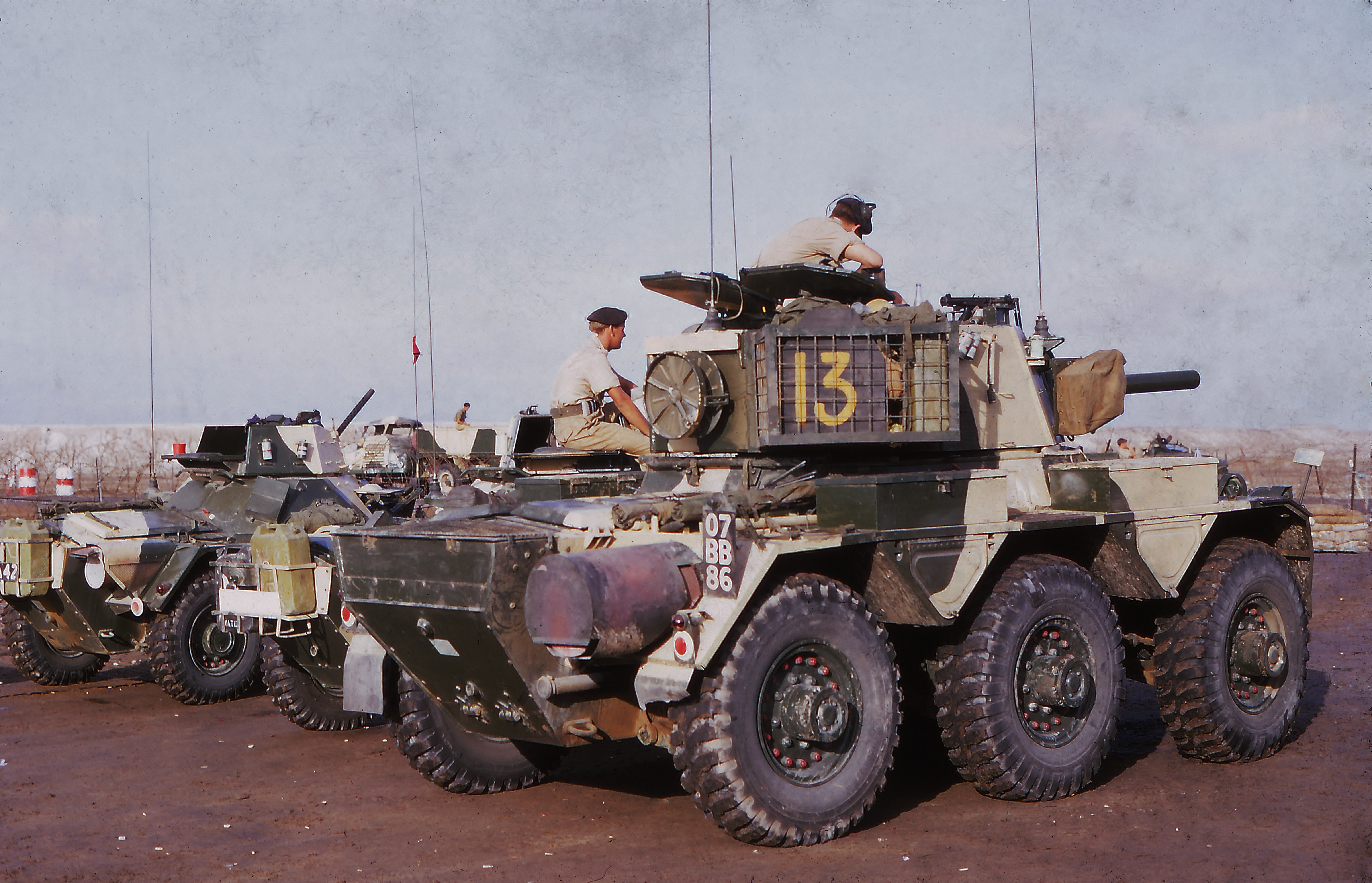 Aden Emergency — Sheikh Othman, Yemen in the 1960s. Checkpoint Bravo and 3 Troop, A Squadron, Queen's Dragoon Guards, in support of us . Early morning after being 'on stand-by and on-call' since the previous afternoon. Everyone was a little weary.